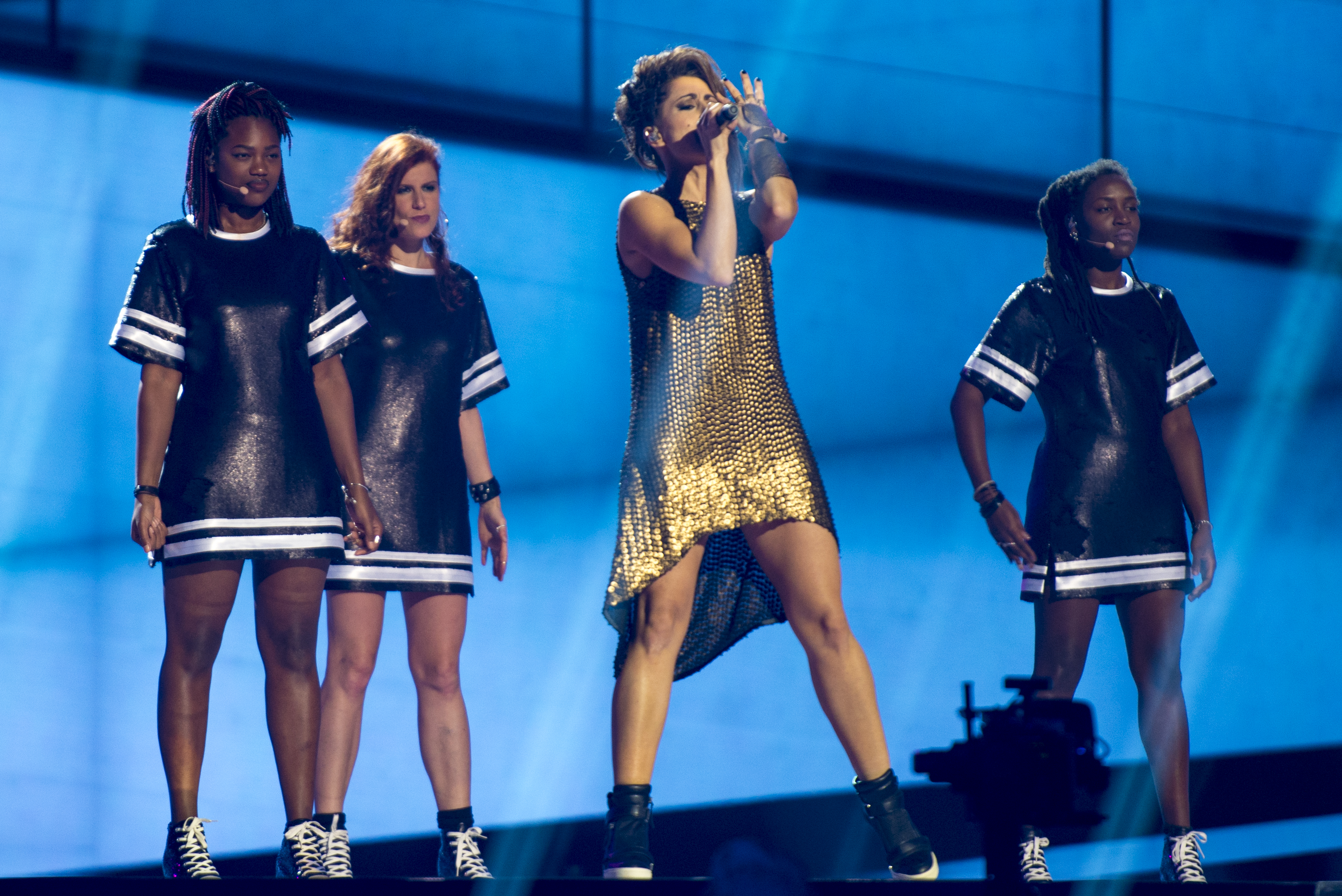 Barei representing Spain with the song "Say Yay!" during a rehearsal for "the Big Five" in the Eurovision Song Contest 2016 in Stockholm. (Help translate this text)